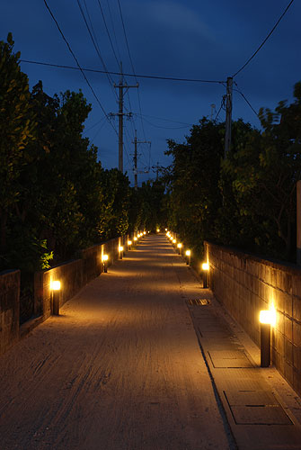 Night in Tonaki Village Road 1